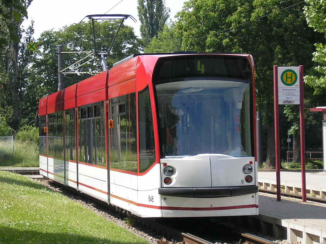 A "Combino" tramway in Erfurt, Germany